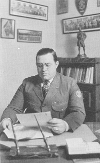 H.Roe Bartle (c.1926) as Scout Executive of the St Joseph Council, BSA.